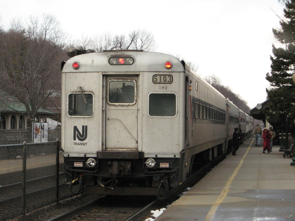 NJ Transit Comet I cab car 5103, on the end of Train 75, at Ridgewood Station.